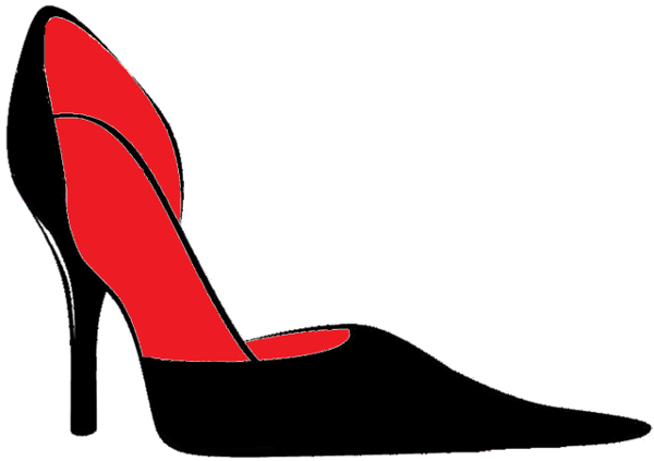 high heels